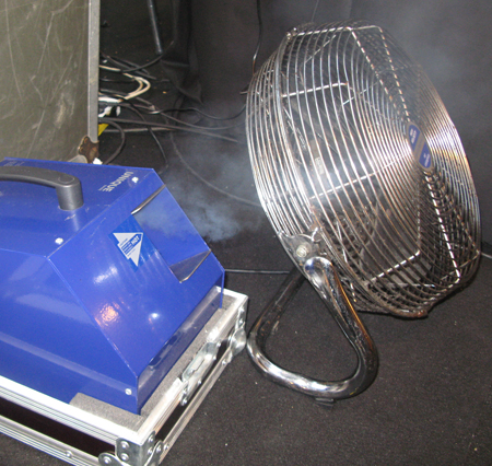 Mandrilloptère in use with Look Unique hazer.